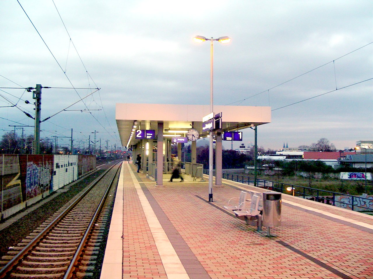 Köln-Müngersdorf Technologiepark S-Bahn stop in Cologne, Germany